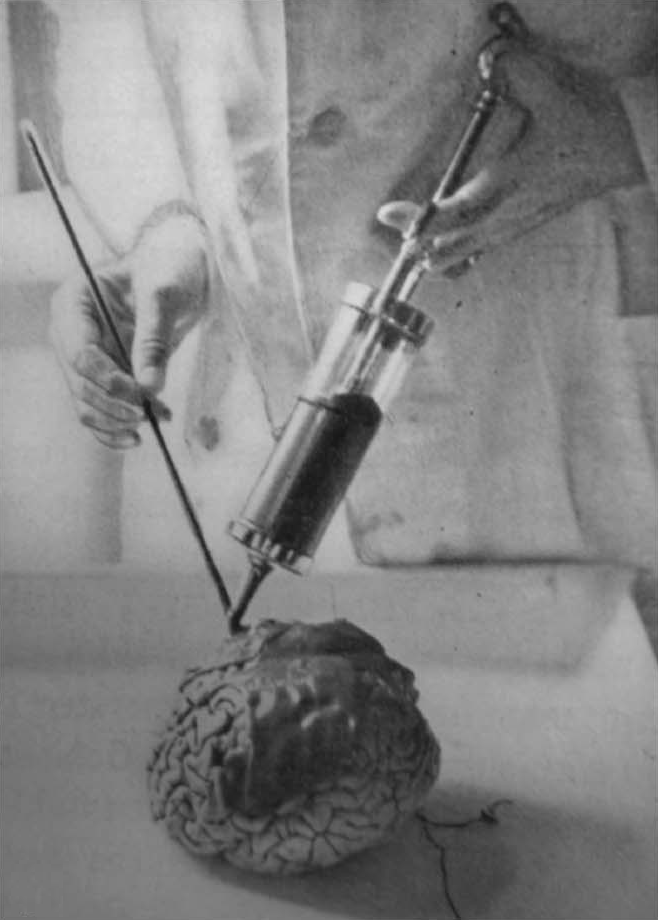 Demonstration of spreading the Negocoll over the surface of the brain with a siphon and brush. The person in the white coat is probably Constantin von Economo himself.